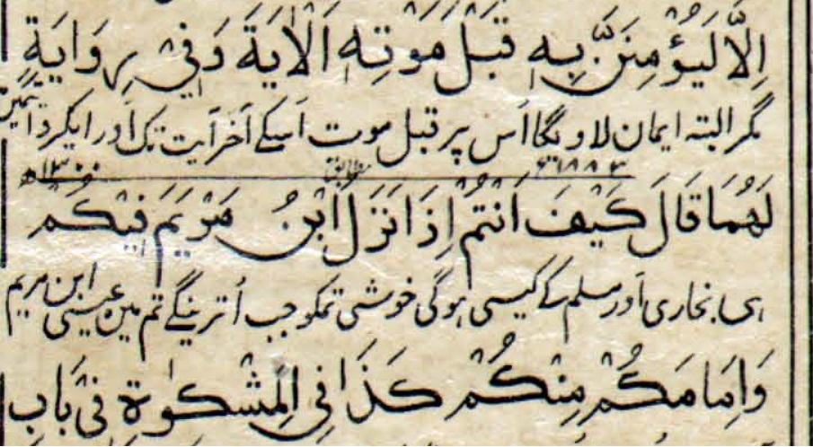 This is a scanned page from a book Al-Arba'in fi Ahwal-al-Mahdiyin page 28 to be shown in the article with the same name .